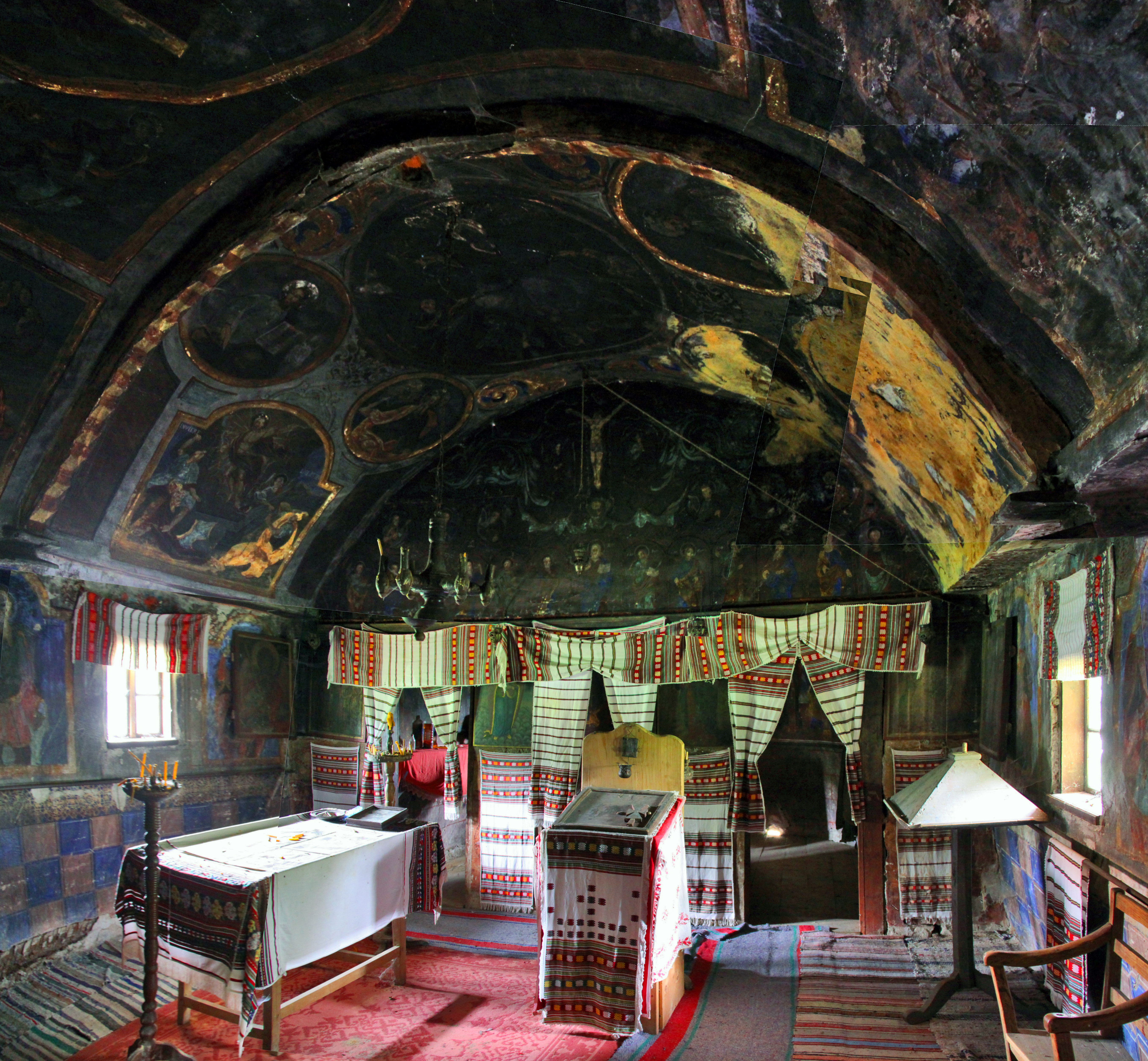 Rugetu-Valea Babei, Vâlcea county, Romania: the wooden church, interior of the nave, towards East.